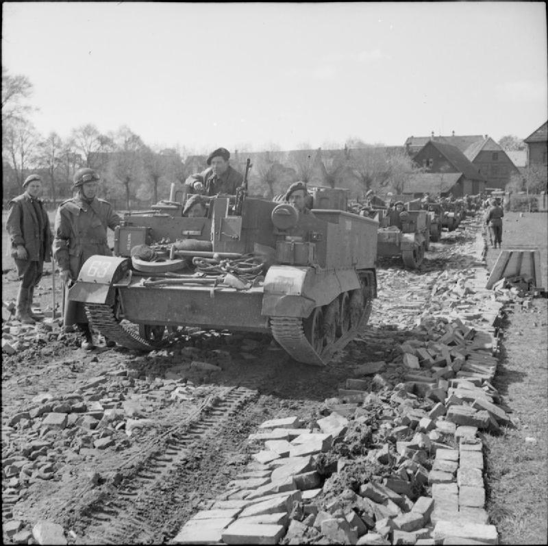 The British Army in North-west Europe 1944-45 Carriers of the 1st Herefordshire's anti-tank platoon move up towards the Weser bridgehead, 7 April 1945.